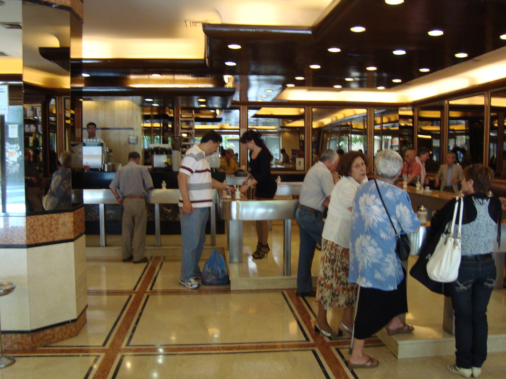 A Cafe con piernas in Santiago, Chile